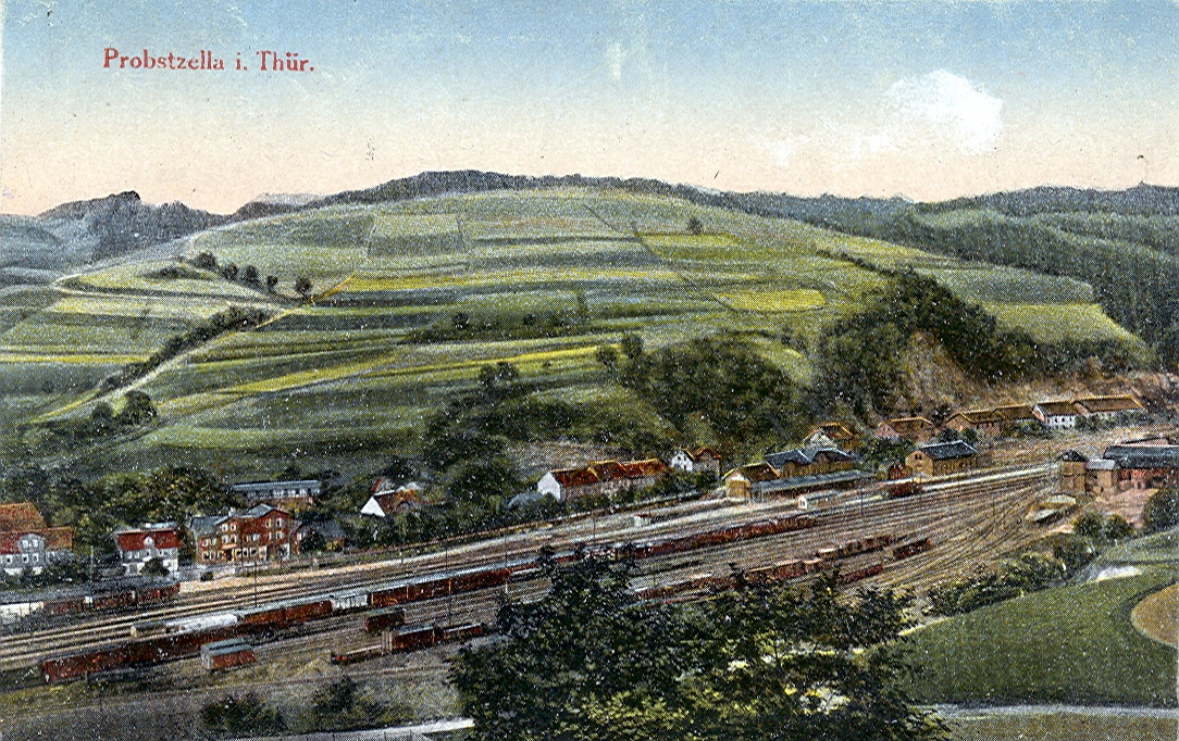 Postcard, dated 29.3.1921. Title: "Probstzella in Thuringia"